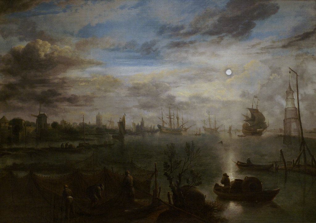 Moonlit harbor